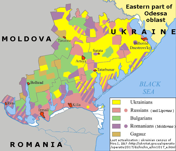 Budjak: languages (since Ukrainian census - 2002)